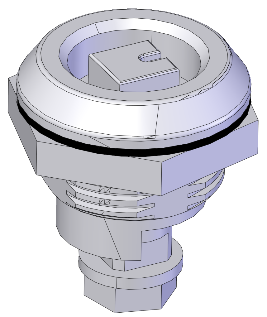 The base portion of a cam lock.